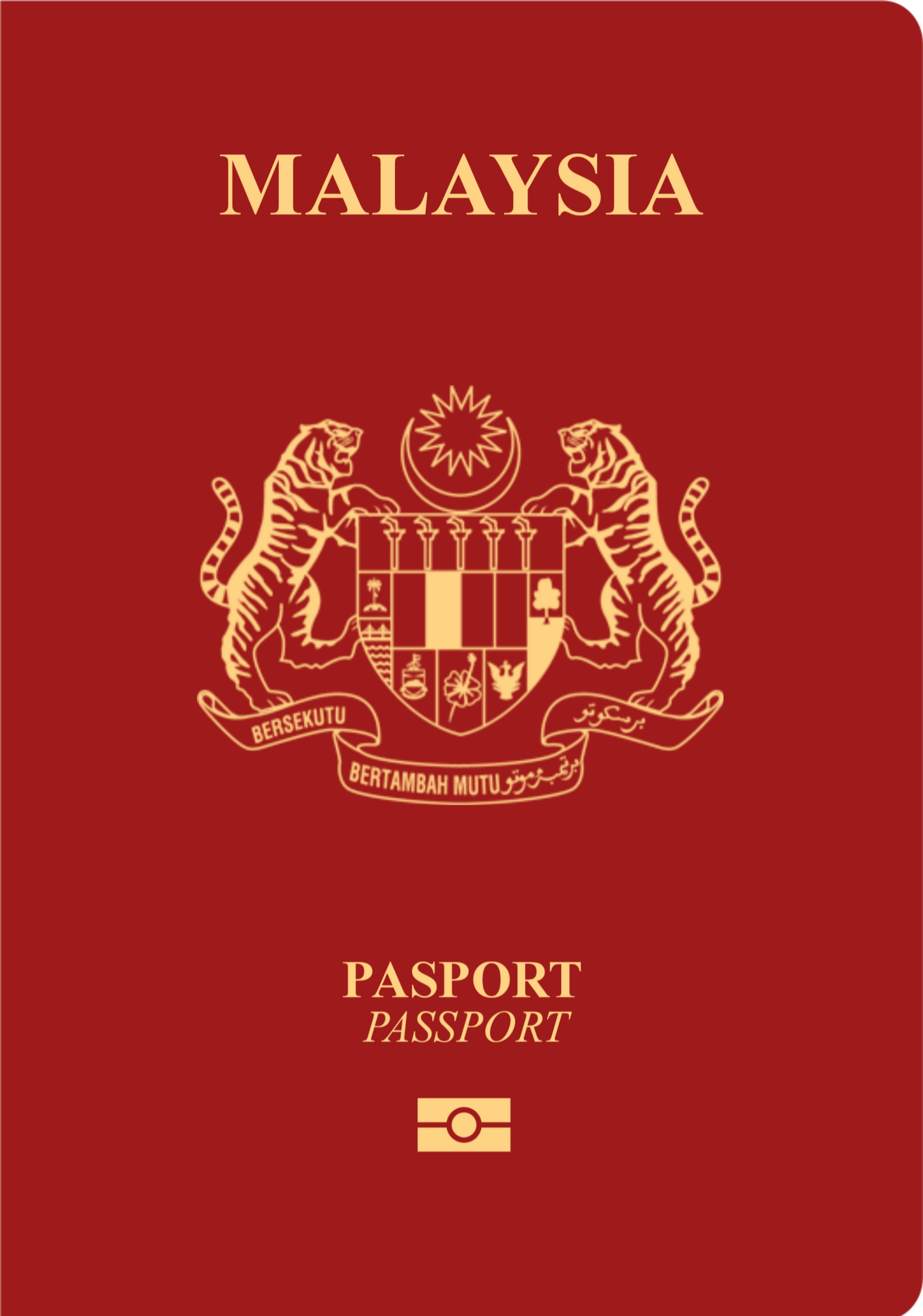 Malaysia - regular international passport (Pasport Antarabangsa Malaysia) ICAO Compliant Version (Feb 2010)